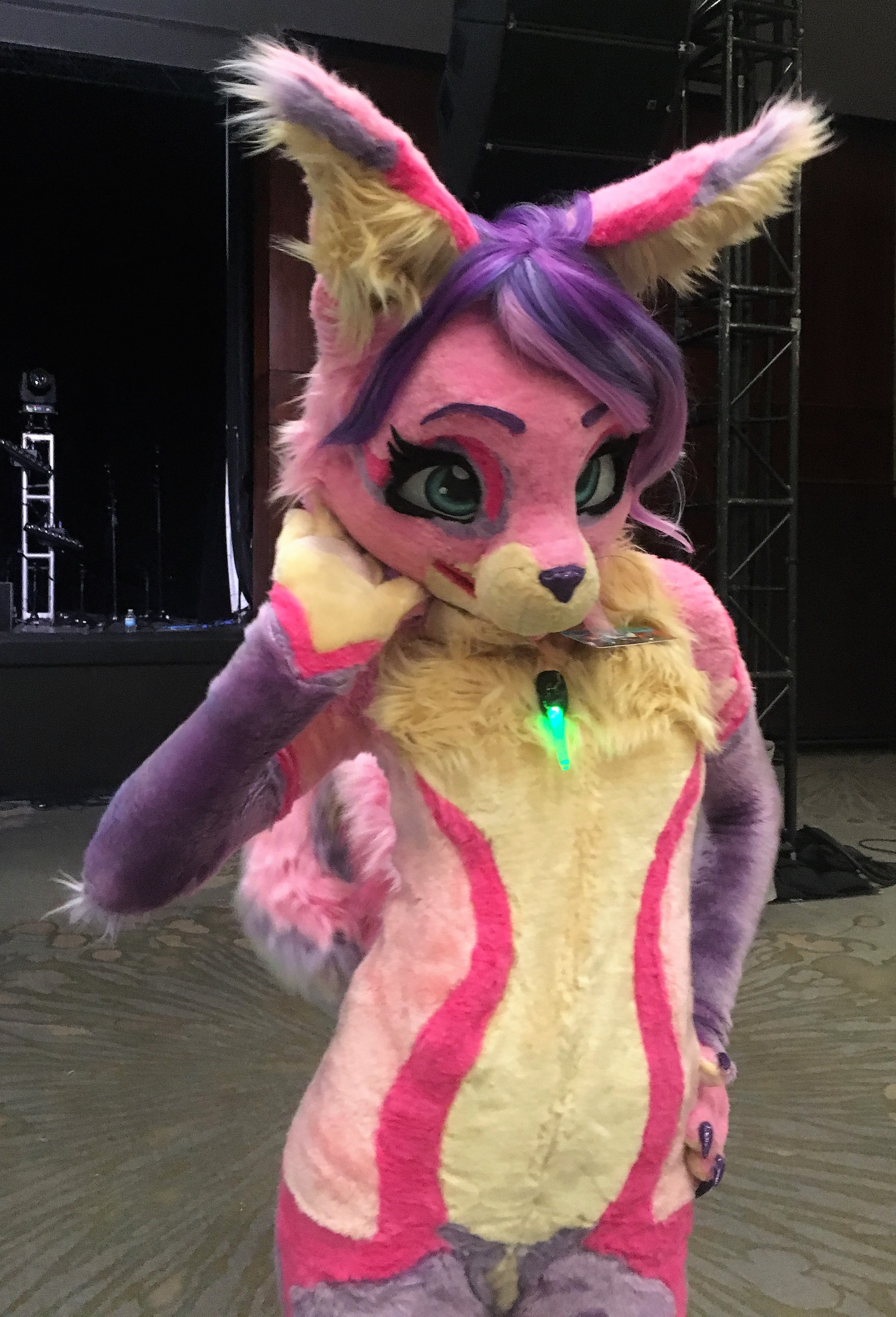 Furnal Equinox was held at Westin Harbour Castle Conference Centre in Toronto. Fursuit made by Hojozilla of Ticklish Tentacle Studio.